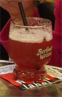 Berliner Weisse flavoured with Raspberry Syrup